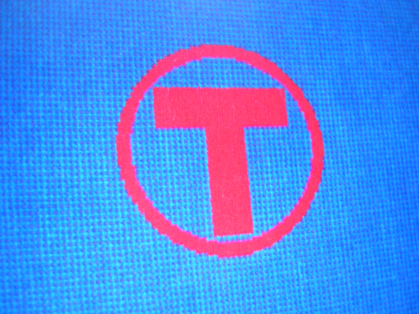 Seat, Metro Transit (Minnesota) bus on University Avenue (Minneapolis-St. Paul), USA